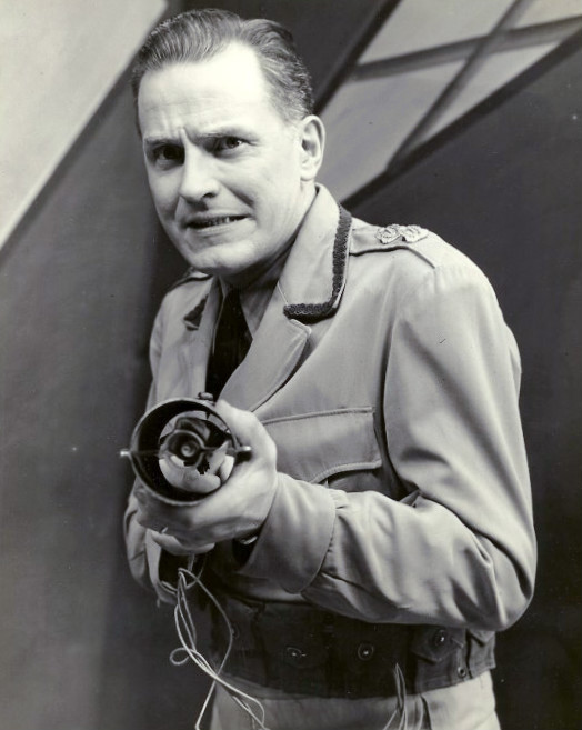 Photo of Al Hodge, who played Captain Video from 1950 to 1955.